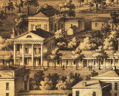 University of Virginia: Pavillon IV at the Lawn, behind it Hotel B. Lithograph from 1856. Description of the entire lithograph from University of Virginia Visual History Collection: Title: View of the University of Virginia, Charlottesville & Monticello, taken from Lewis Mountain (...) Comments: University of Virginia, from the west, showing Rotunda, Annex, Lawn, Ranges, and Anatomical Theatre. Published by Casimir Bohn, Washington, D.C. and Richmond, VA, labeled, lower left, "Drawn from Nature & Printed in Colors by E. Sachse & Co." labeled, lower right, "Sun Iron Building, Baltimore Md." 13 b&w photographs Image Filename: prints00017 Accession Number: MSS 2535 Copy Negative Number: ps1946